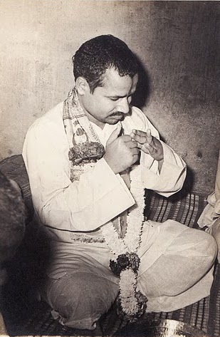 A young Giridhara Miśra (now known as Jagadguru Rambhadracharya) in an undated photo